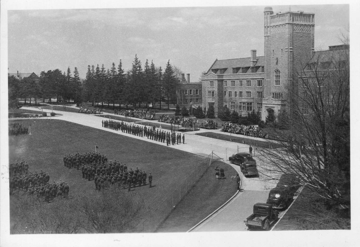 This is a picture of the official opening of No. 4 WS on Saturday, 9 August 1941 at 10:45 a.m. It must have been taken from the roof of Massey Hall or some other nearby building. The security fence is seen, as are the "hundreds of guests" on the bleachers in front of Johnston Hall. Johnston Hall was the Administration or Headquarters building for Royal Canadian Air Force No. 4 Wireless School, Guelph, Ontario, Canada. Building number 8 on the RCAF site plan.